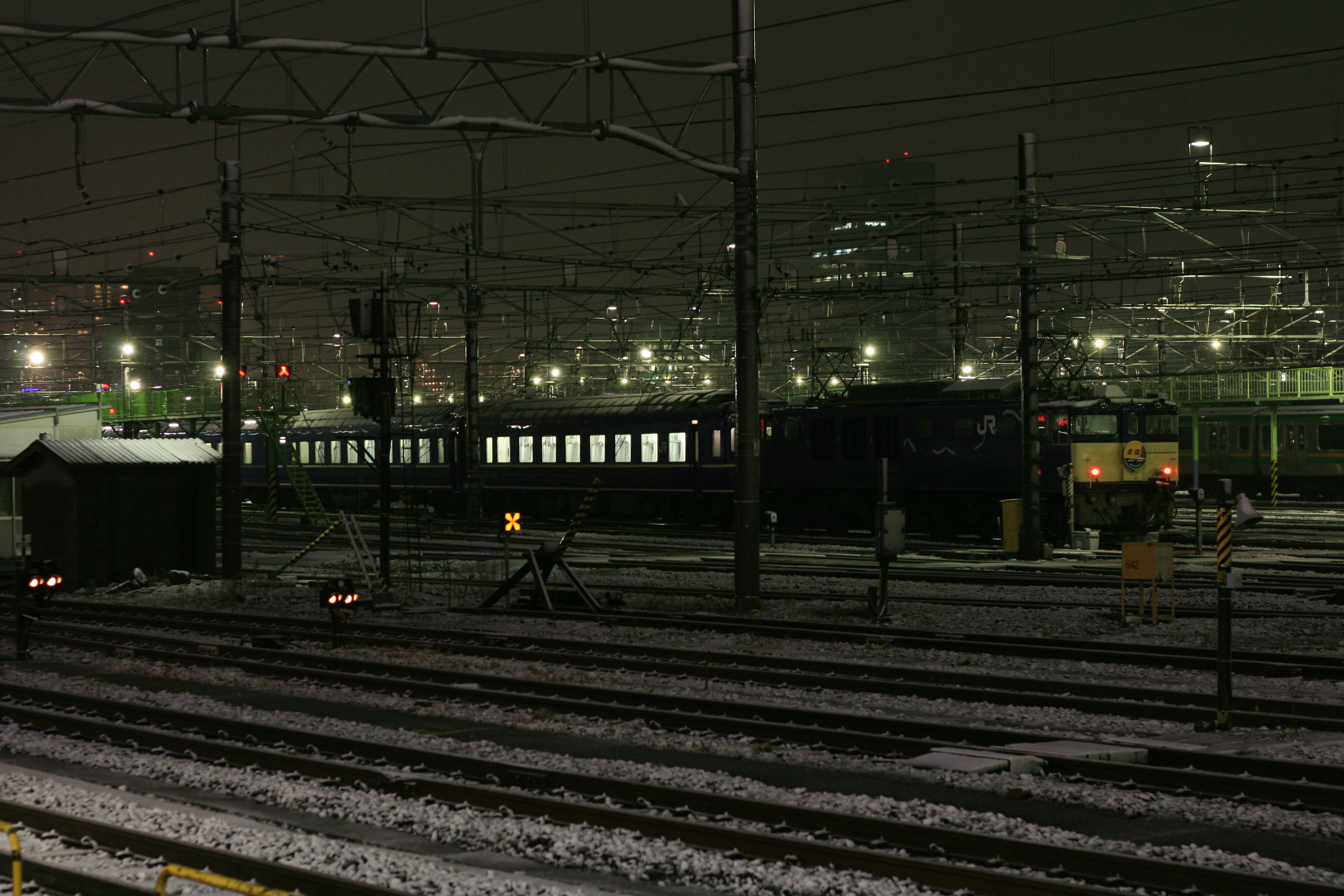 Sleeper limited express train Hokuriku being deadheaded from Oku Station to Ueno about 30 minutes prior to its departure.